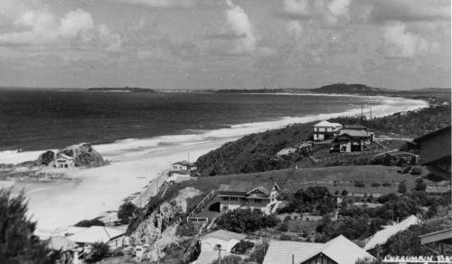 Currumbin Beach on the Gold Coast, Queensland, ca. 1938. Panoramic view of the beach at Currumbin on the Gold Coast, Queensland, around 1938. Headland visible in the background is Coolangatta and Tweed Heads. A number of houses are built on the sandy hills to the right of the beach. Elephant rock and the early Currumbin Surf Lifesaving Clubhouse nestled into the rock on the left.